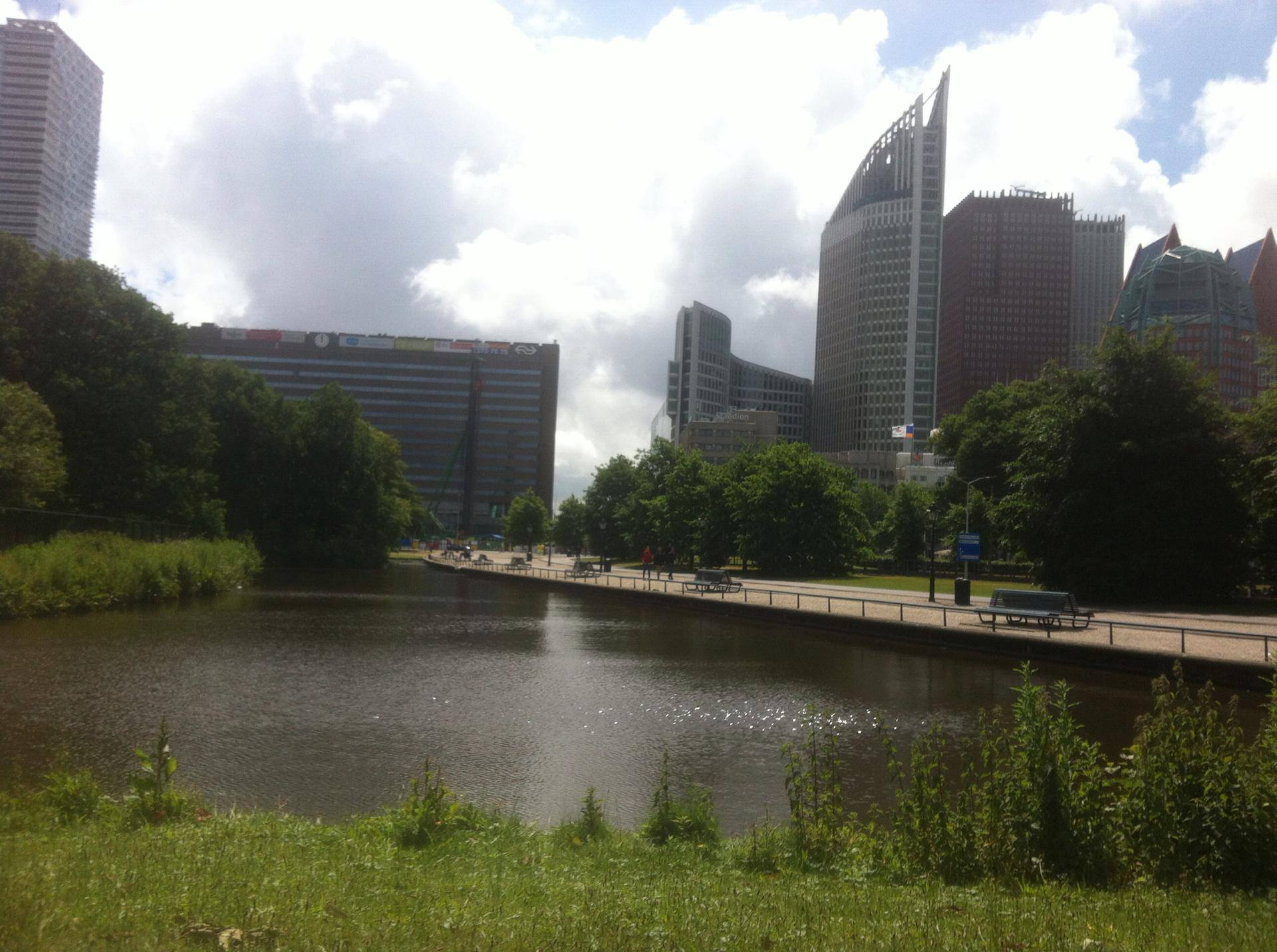 Malieveld park in De Haag